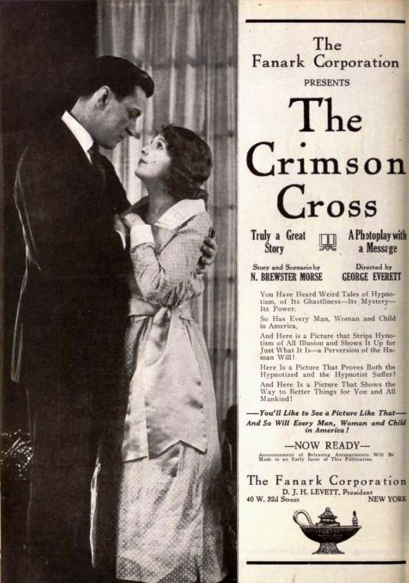 Advertisement for the American drama film The Crimson Cross (1921) with Edward Langford and Marian Swayne, on page 26 of the October 9, 1920 Exhibitors Herald.